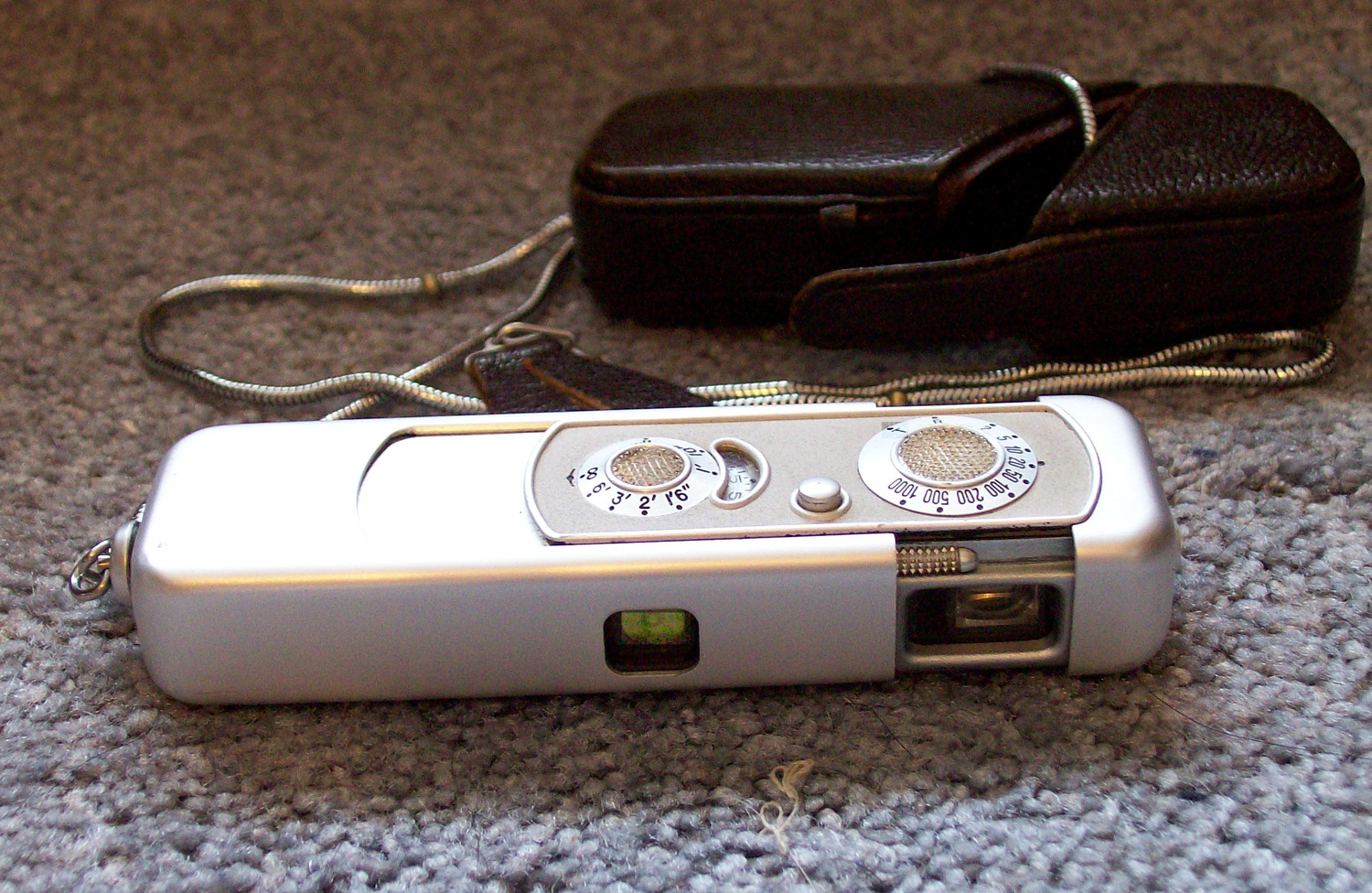 Minox IIIs, with green filter, black leather case